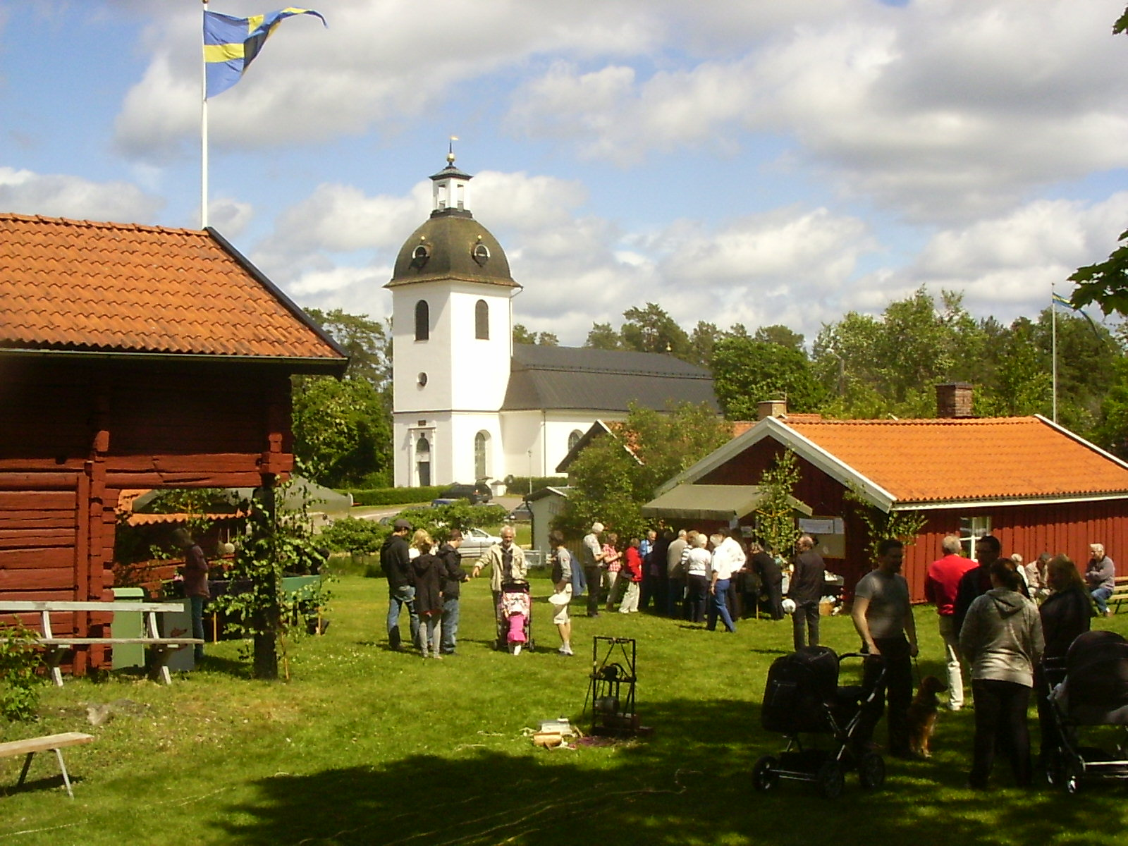 Västrum's church and open air museum